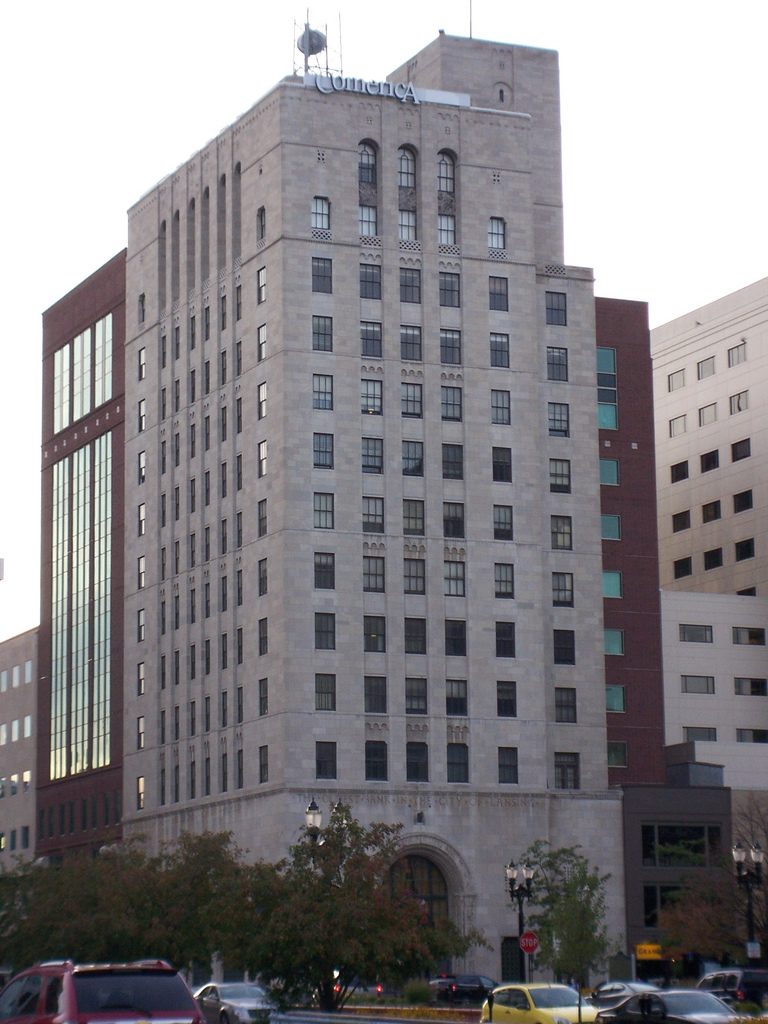 The 15-story Comerica Bank Building, located at 101 North Washington Square in downtown Lansing, Michigan. Completed in 1931, it currently is the third tallest high-rise building in Lansing.